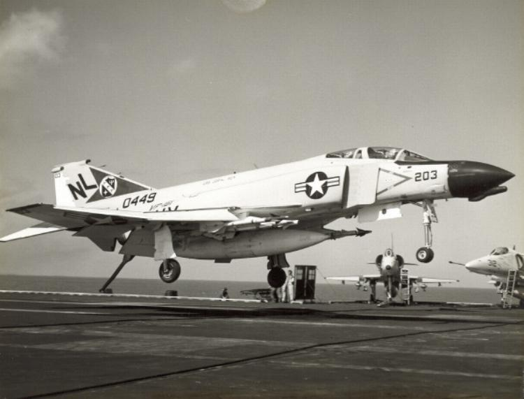 A McDonnell F-4B Phantom II (BuNo 150449) of Fighter Squadron 161 (VF-161) "Chargers" landing on the aircraft carrier USS Coral Sea (CVA-43), in 1967. VF-161 was assigned to Attack Carrier Air Wing 15 (CVW-15) aboard the Coral Sea for a deployment to Vietnam from 26 July 1967 to 8 April 1968. The Phantom is armed with four AIM-9D Sidewinder and two AIM-7 Sparrow air-to-air missiles. The F-4B 150449 was lost to ground fire over Vietnam on 29 December 1967. The crew, Lt J.F. Dowd and Lt(JG) G.K. Flint, survived.